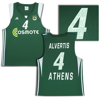 Panathinaikos Uniform 5 Stars